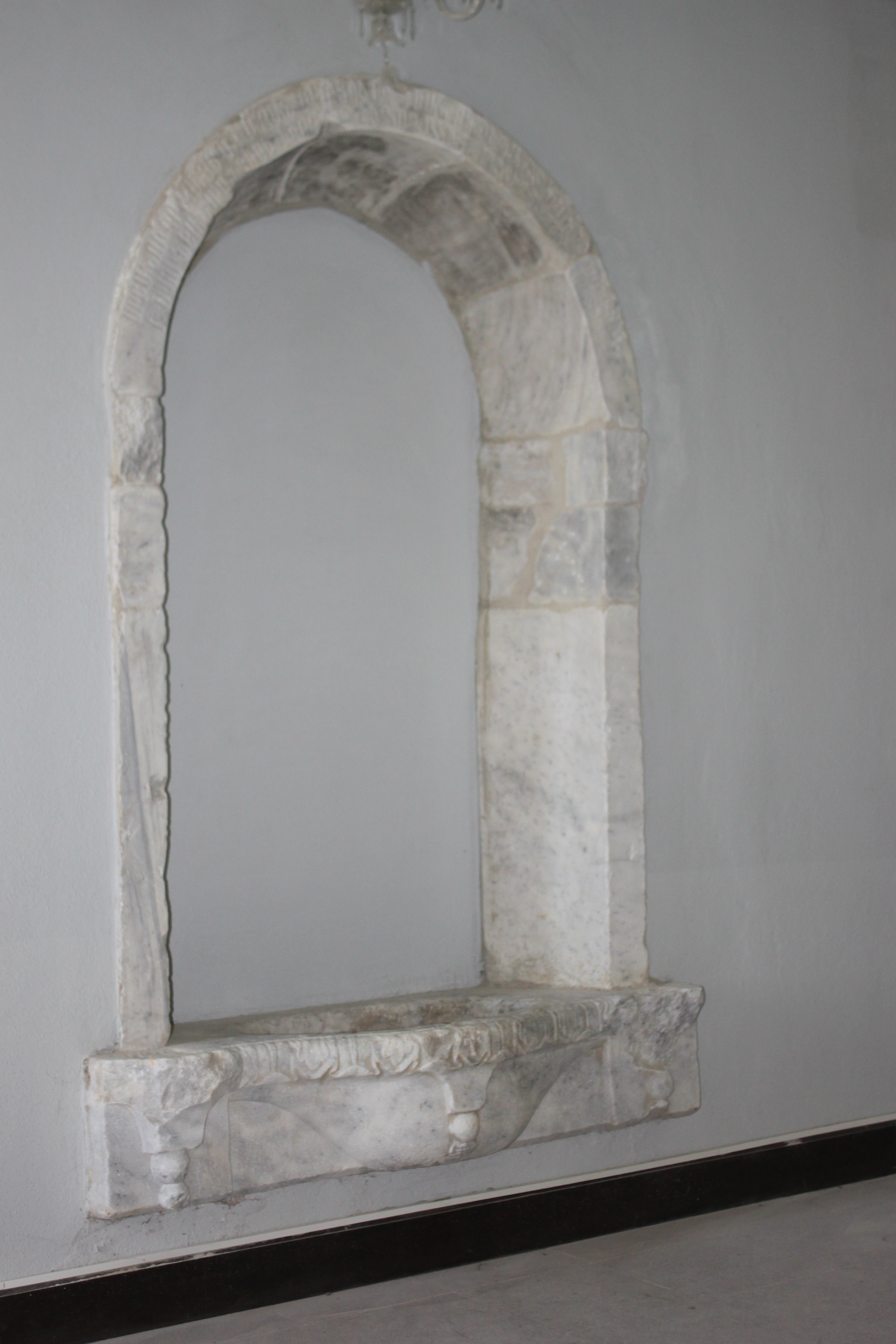 Holy Trinity Church, baptismal font in the north wing; Sivrihisar